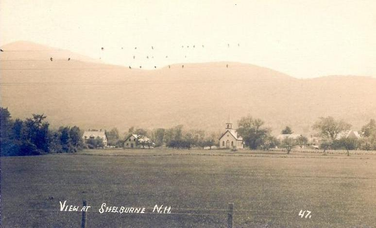 View at Shelburne, New Hampshire; from a c. 1915 postcard. This shows birds sitting on the utility wires.